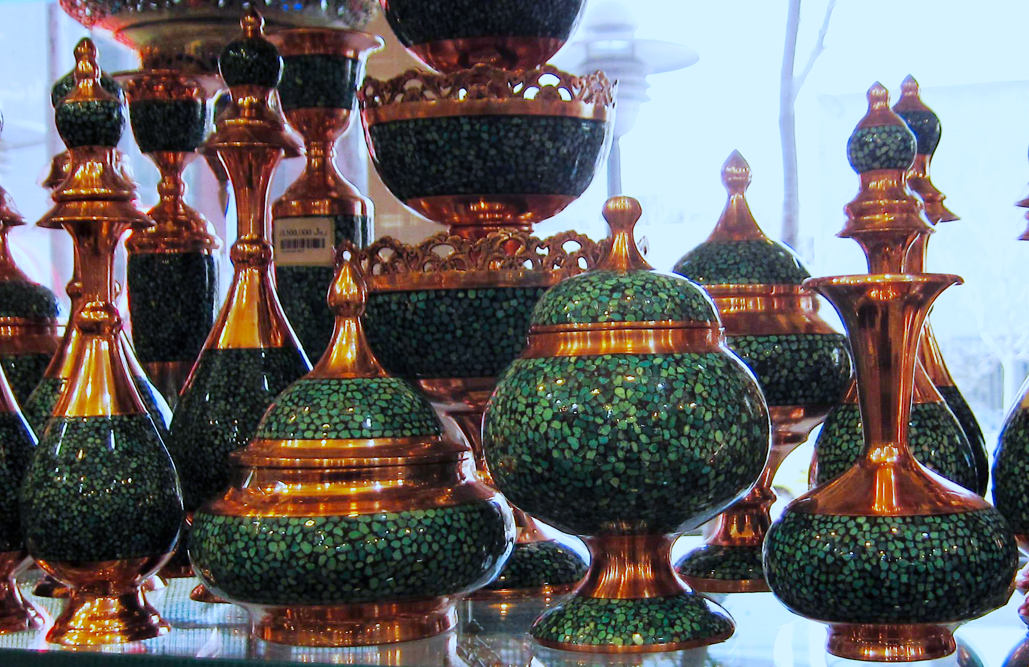 Firoozeh koob handicrafts from Iran. They are made by hammering small pieces of turquoise on a copper, brass or silver container.